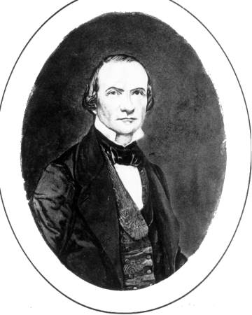 This image was taken from the Florida Memory Project where it was image rc02521. Leader: kmKa0n Fixed field data: khbc Fixed field data: 030515s1881 in d key: AAP-1662 Local call number: rc02521 Title: [Portrait of Francis Wayles Eppes : Tallahassee, Florida] [graphic] Publication info: Not after 1881. Physical descrip: 1 photoprint : b&w ; 9 x 7 in. Series Title:(Reference collection.) Biographical note: 3 times mayors of Tallahassee and grandson of Thomas Jefferson. Born: 1801. Came to Tallahassee: 1827. *Moved to Orange County: 1869. Died: May 30, 1881. Personal subject:Eppes, Francis Wayles, 1801-1881--Portraits. Subject term: Portraits--Florida--Tallahassee. Subject term: Men--Florida--Tallahassee--Portraits. Geographic term: Tallahassee (Fla.) Shelf number: 17260. jgy